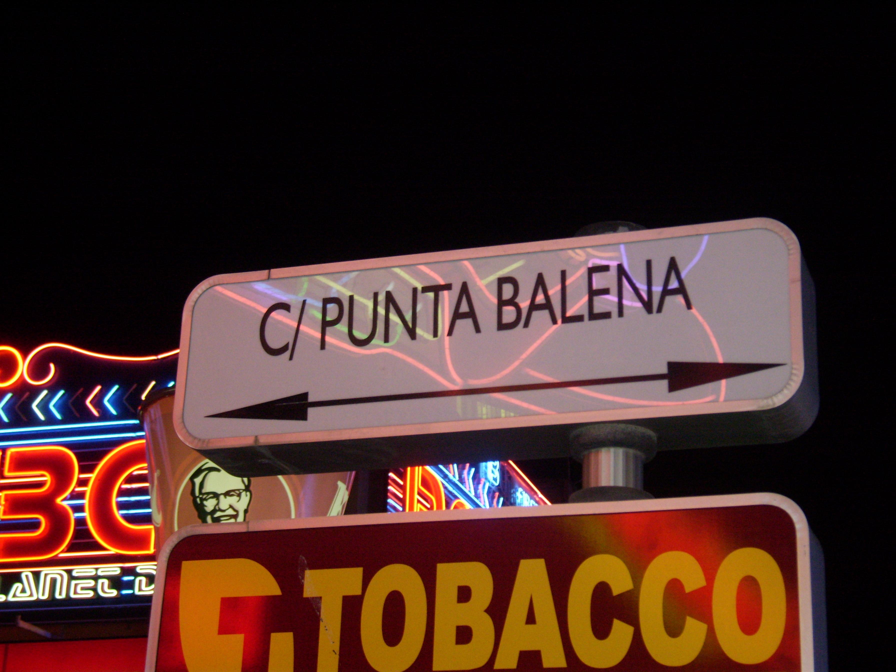 Letter of Punta Ballena street